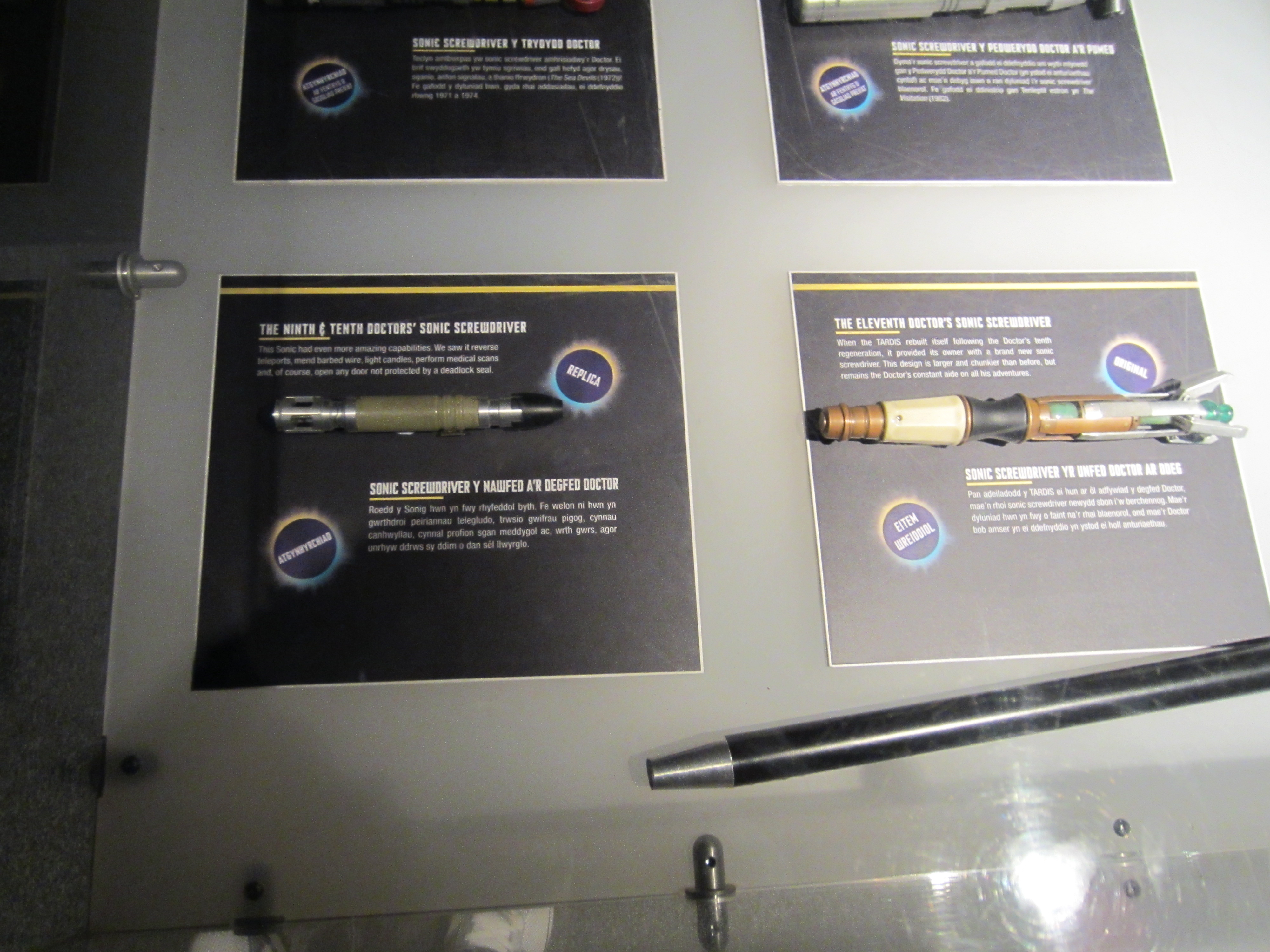 Costumes and prop from Doctor Who, displayed at the Doctor Who Experience in Cardiff.